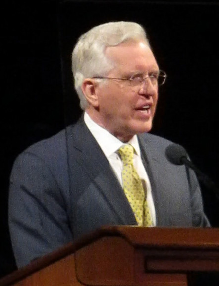 Apostle D. Todd Christofferson at a BYU devotional.